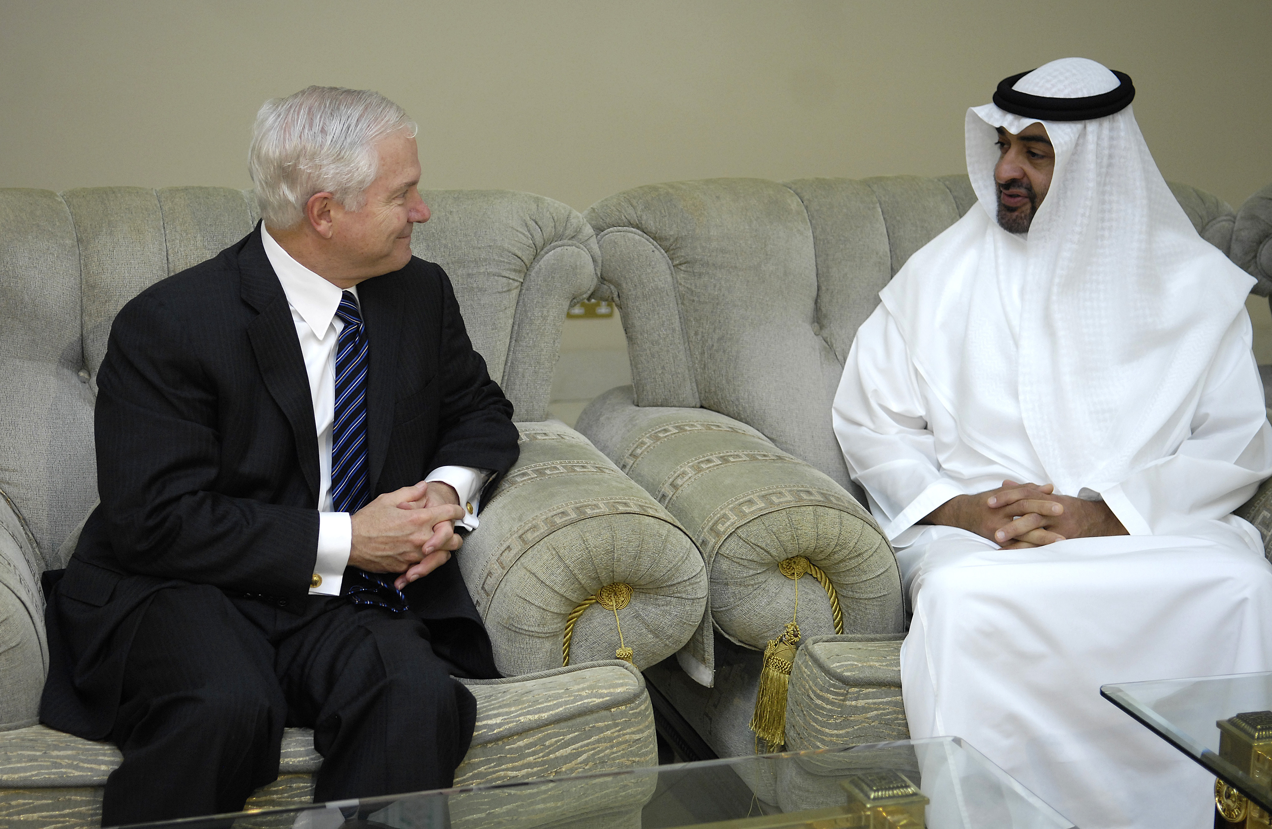 U.S. Secretary of Defense Robert Gates (left) and Sheikh Mohammad bin Zayed Al Nahyan meet on August 2, 2007.